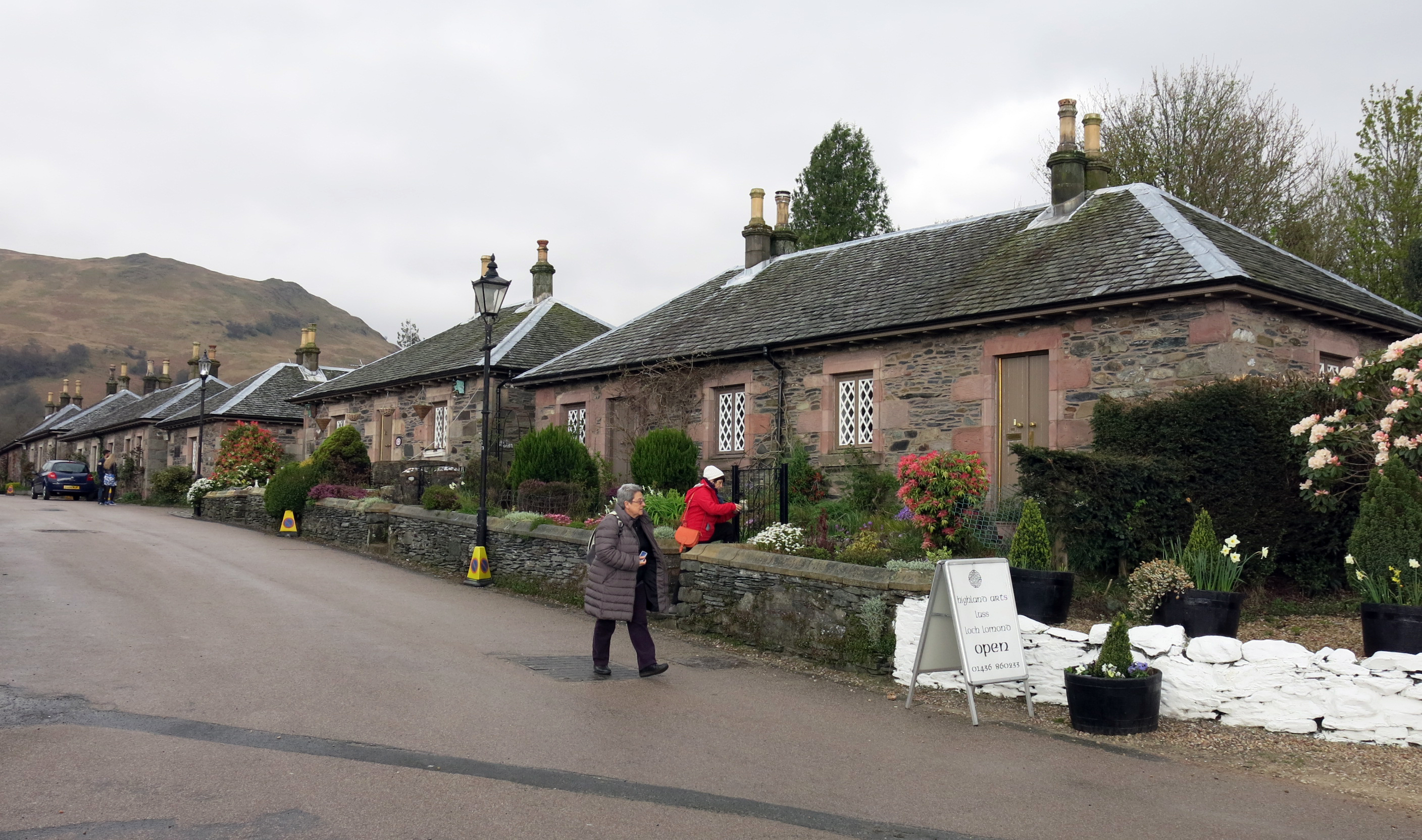 Luss, Pier View Cottage.